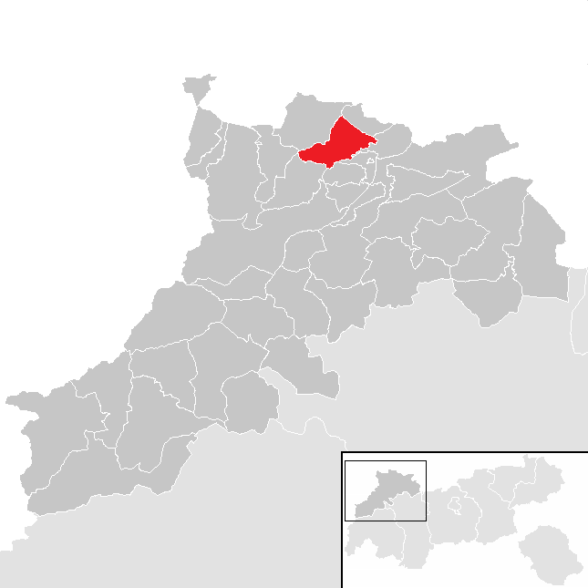 District Reutte